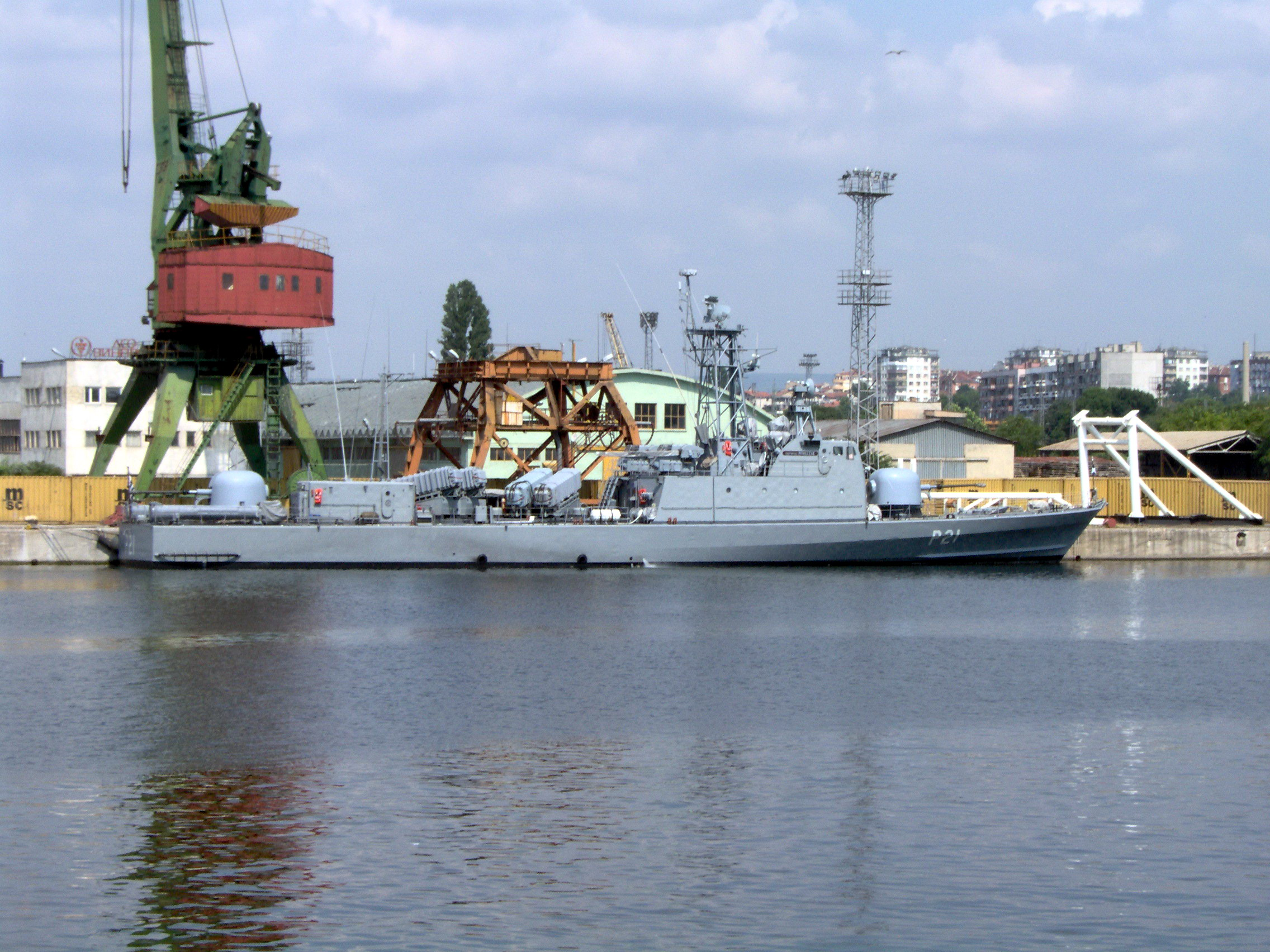 Greek guided missile fast attack craft Antiploiarchos Blessas (P-21)